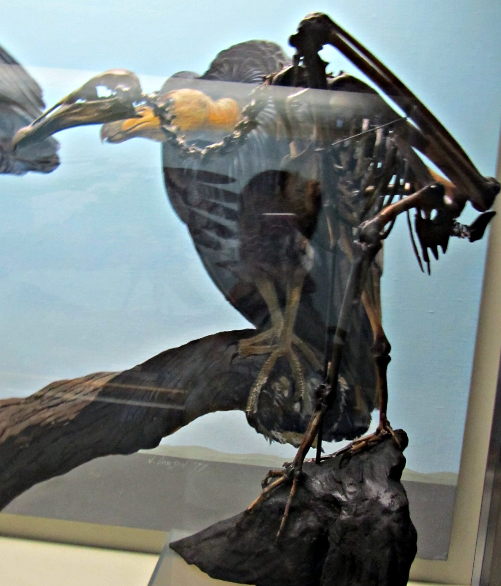 The extinct Breagyps clarki ("Brea Condor") was almost as large as the living California Condor, although it had a longer and more slender beak.